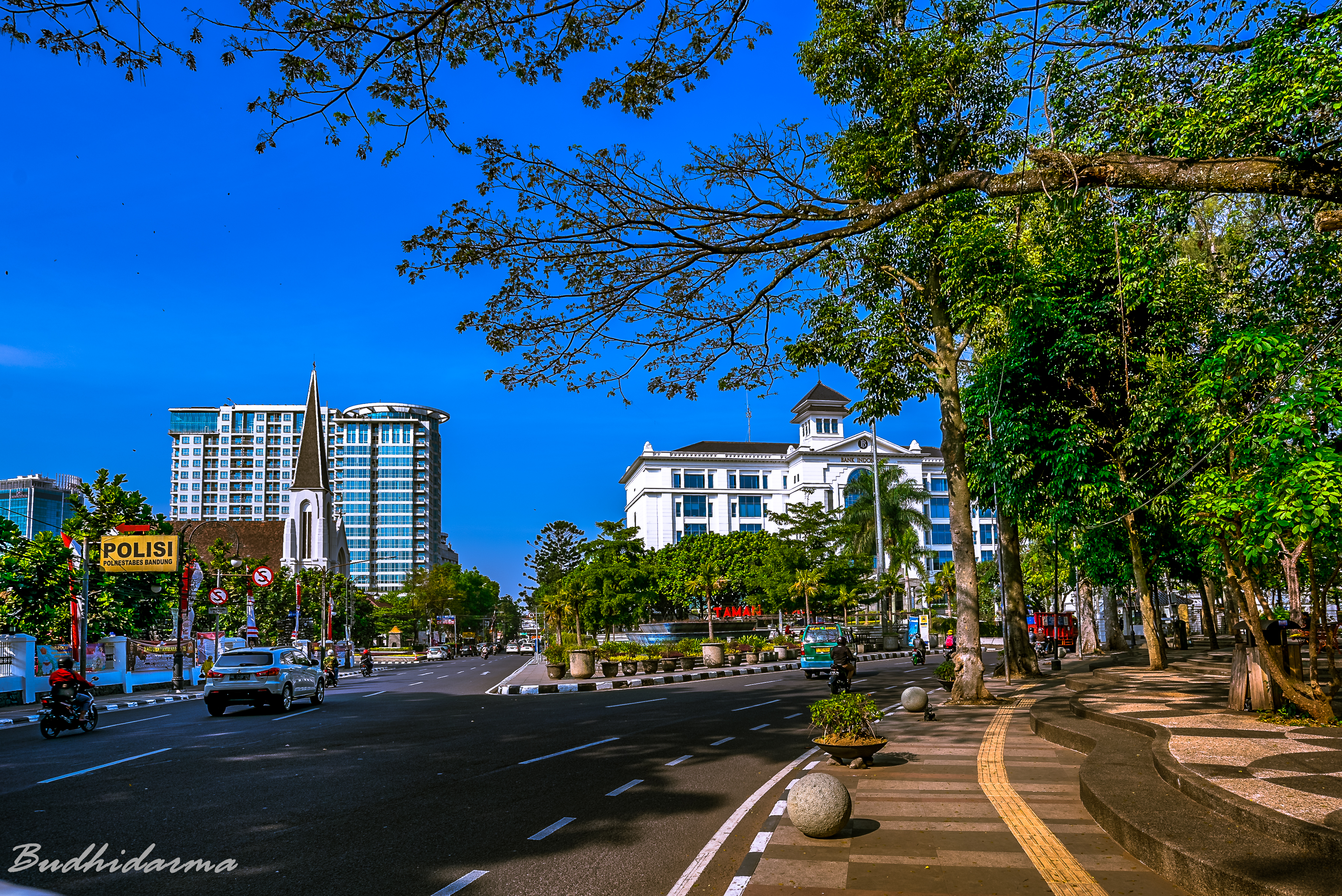 Bandung City West Java Indonesia